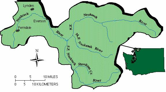 This is a USGS image found here